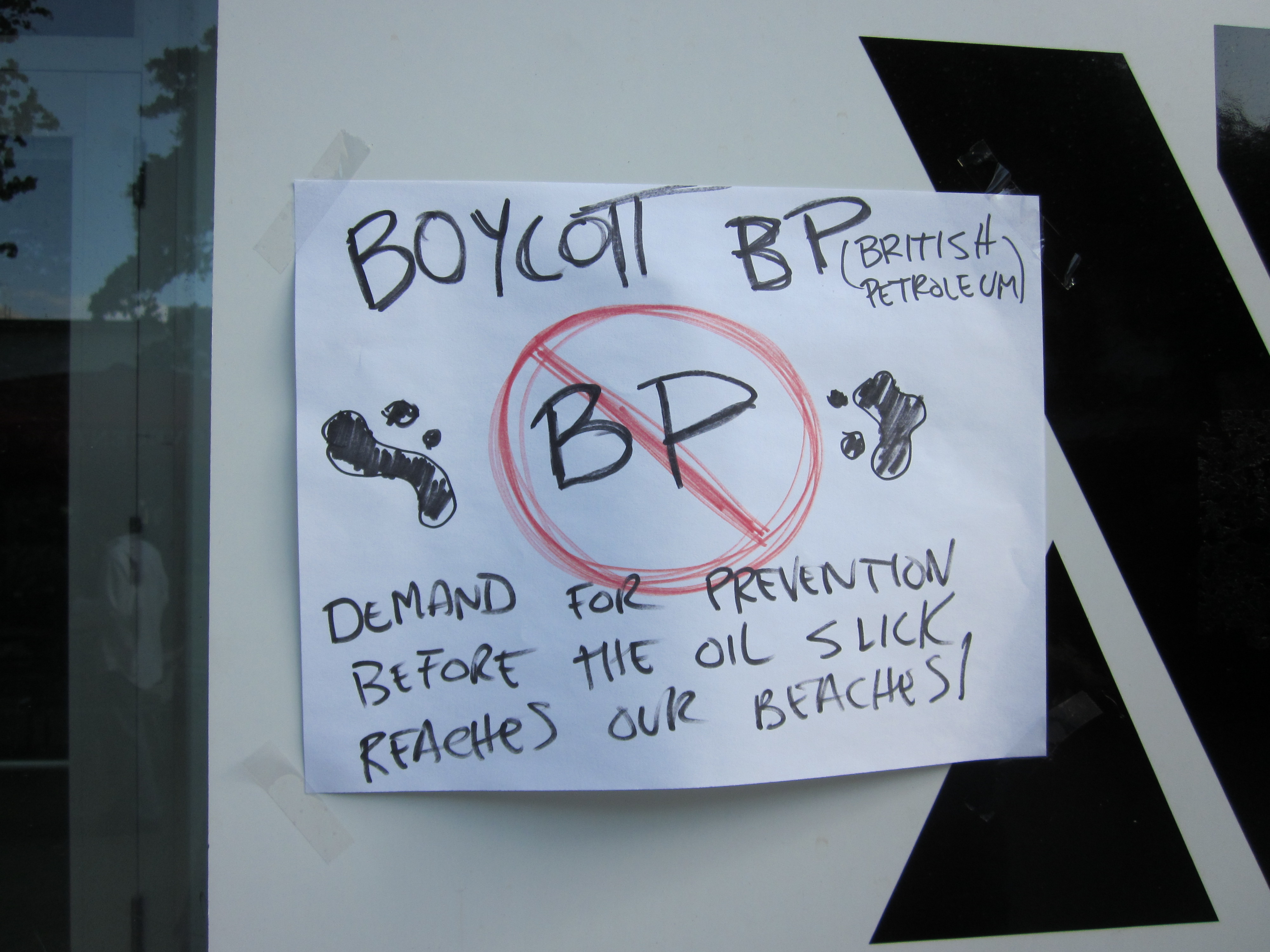 Miami Beach, Florida Hand made sign advocating boycott of BP due to the Gulf oil spill. Lincoln Street pedestrian mall.